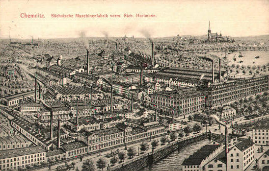 This image shows the Saxon Machine Works Joint stock company. The company was established by Richard Hartmann 1870 in Chemnitz. It was one of the largest companys in the Kingdom of Saxony.